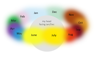 this is an "inside my head" view of how i see the months of the year via my spatial-sequence syensthesia. the colored areas are the colors i hold for each month (which doesn't necessarily correspond to the color of the actual WORD for that month).